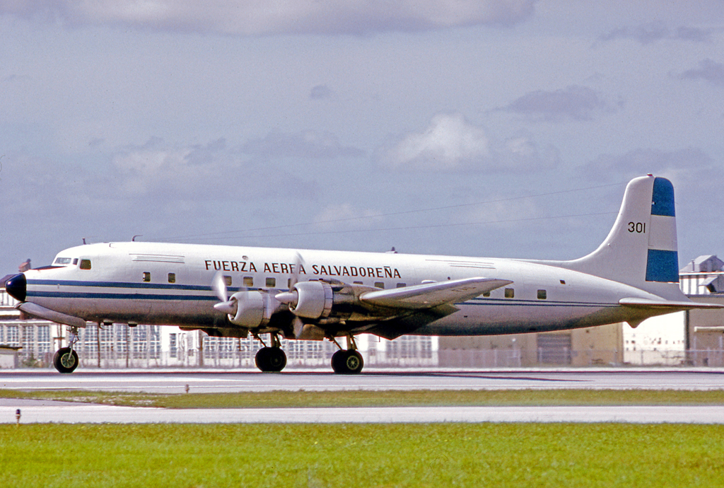 Douglas DC-6B of the El Salvador Air Force at Miami Airport in 1975